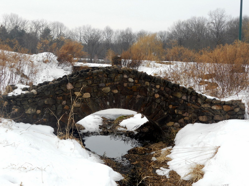 New Vernon Historic District This photo was taken in Bayne Park in New Vernon NJ.